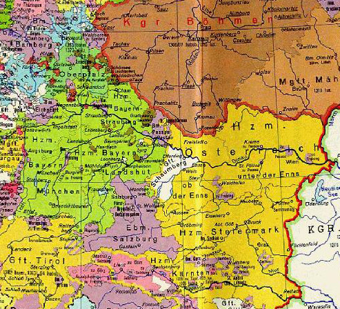 the county of Schaunberg in the 14th century, settled between Habsburg controlled Austria, The Duchy of Bavaria, the Archbishopric of Salzburg and the lands controlled by the bishop of Passau